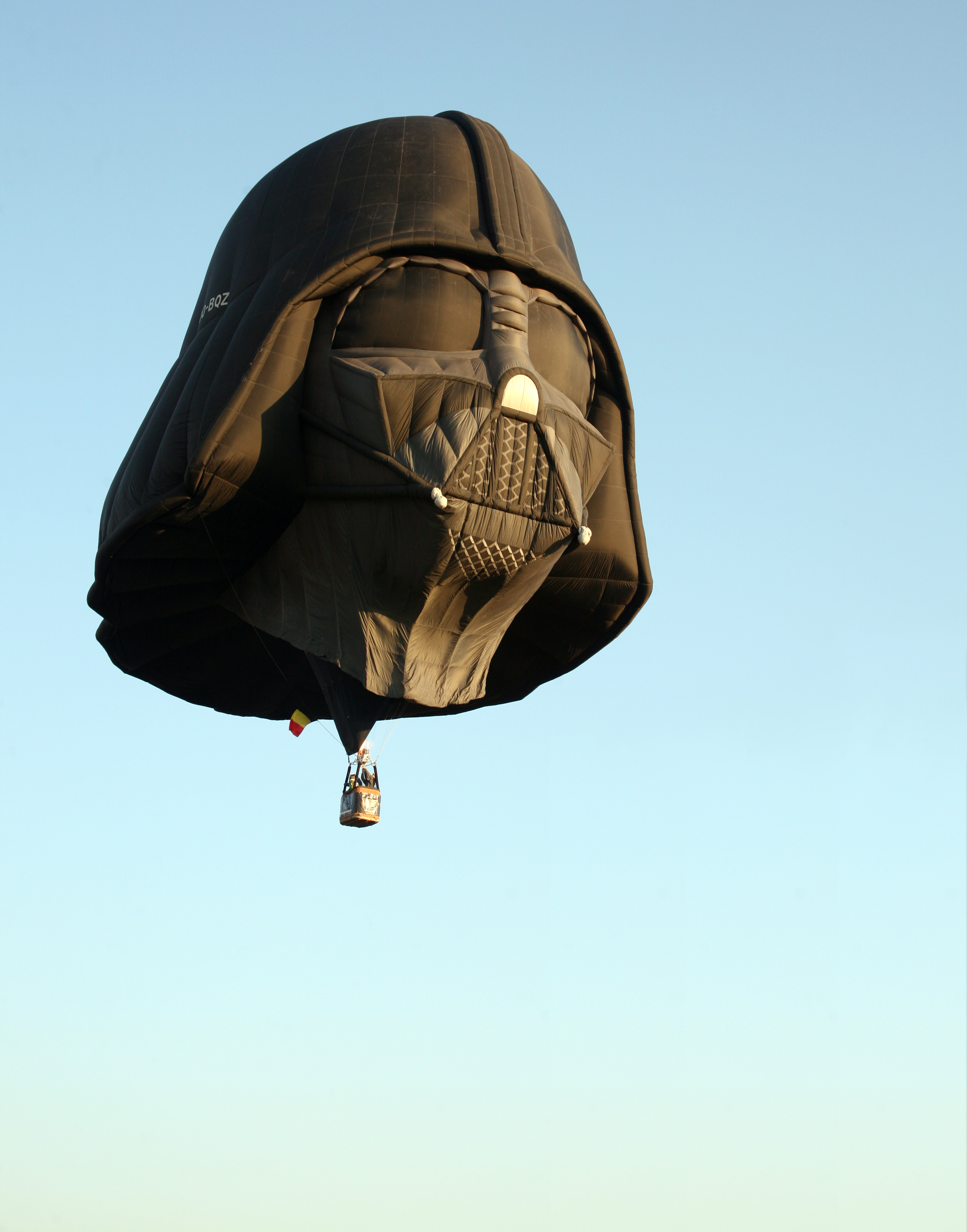 Hot Air Balloon festival in Leon, Guanajuato, Mexico.